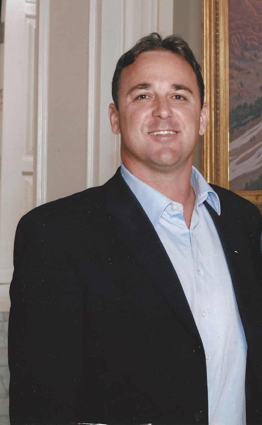 Chris Haver